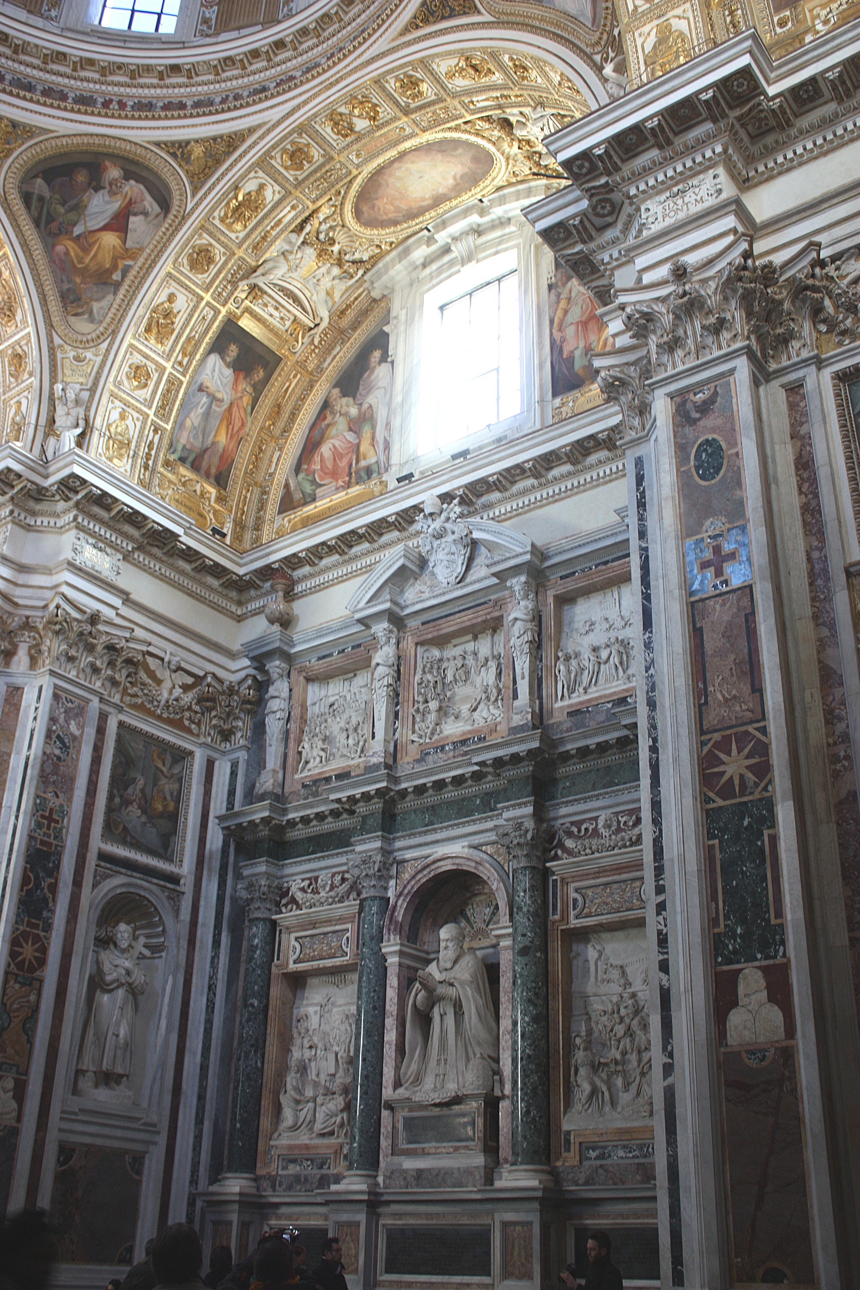 Rome, Santa Maria Maggiore, the tomb of Pope Sixtus V